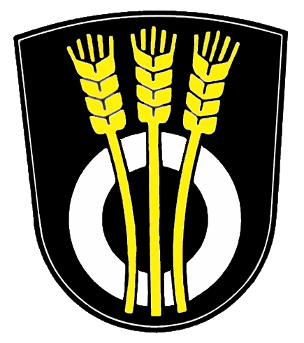 Coat of Arms of Unterknöringen in Burgau